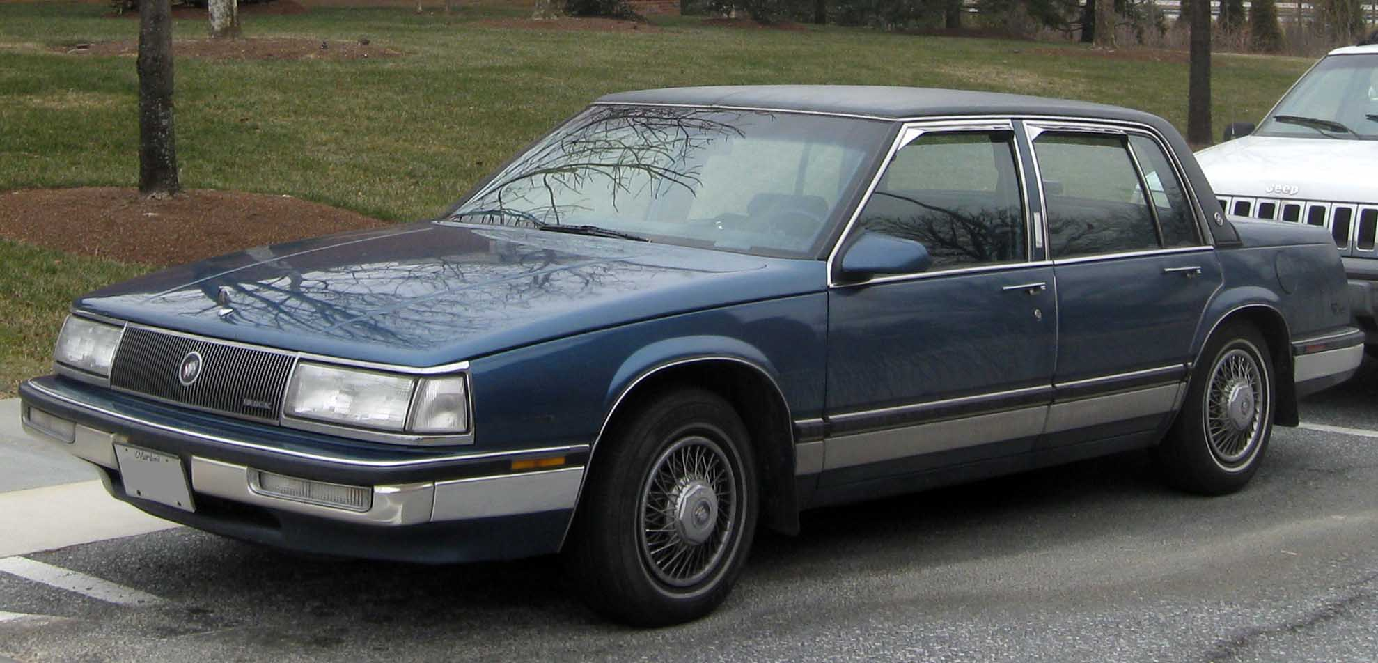 1985-1990 Buick Electra Park Avenue photographed in College Park, Maryland, USA.